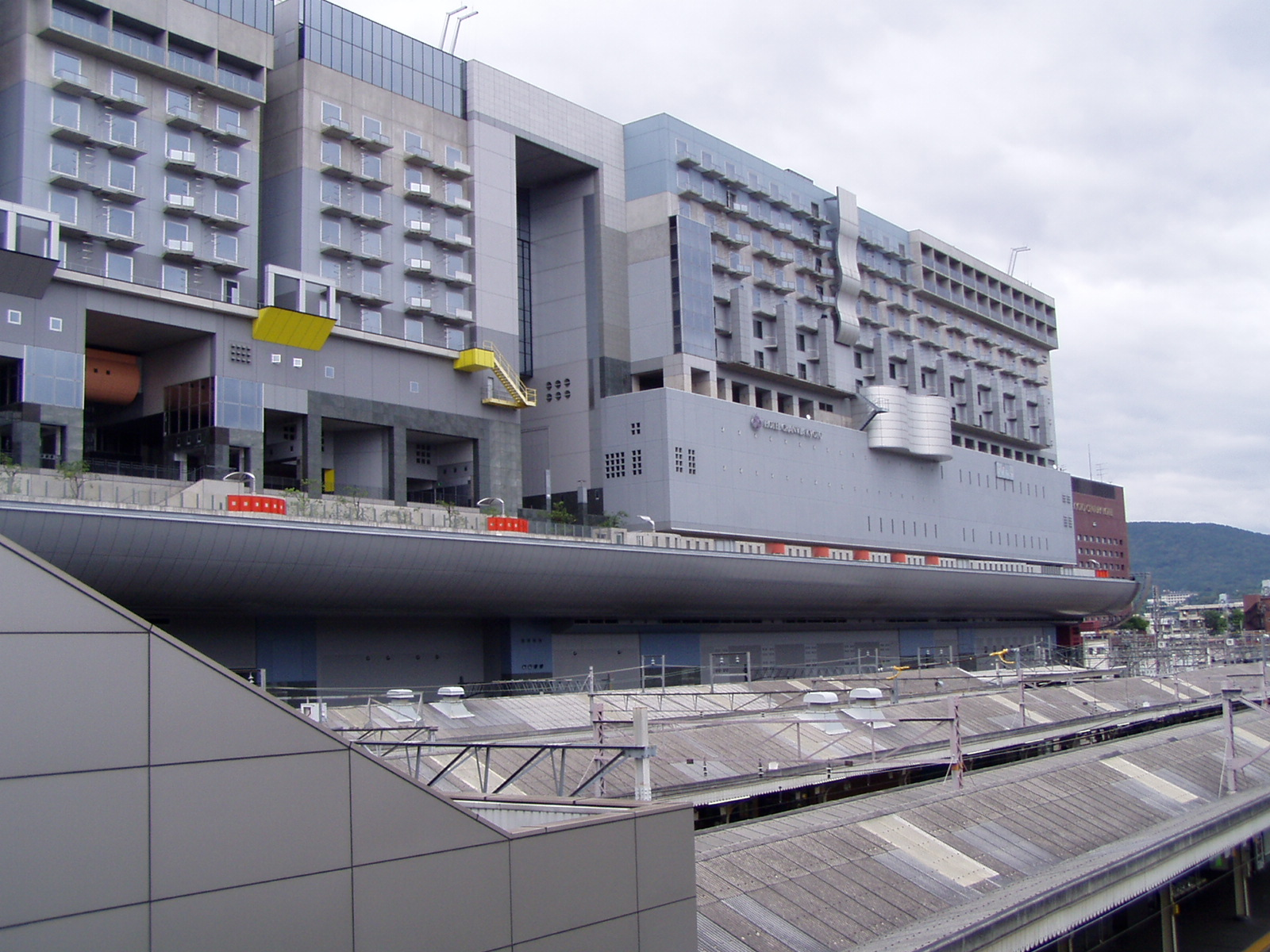 Kyoto JR Station, east wing from platform side